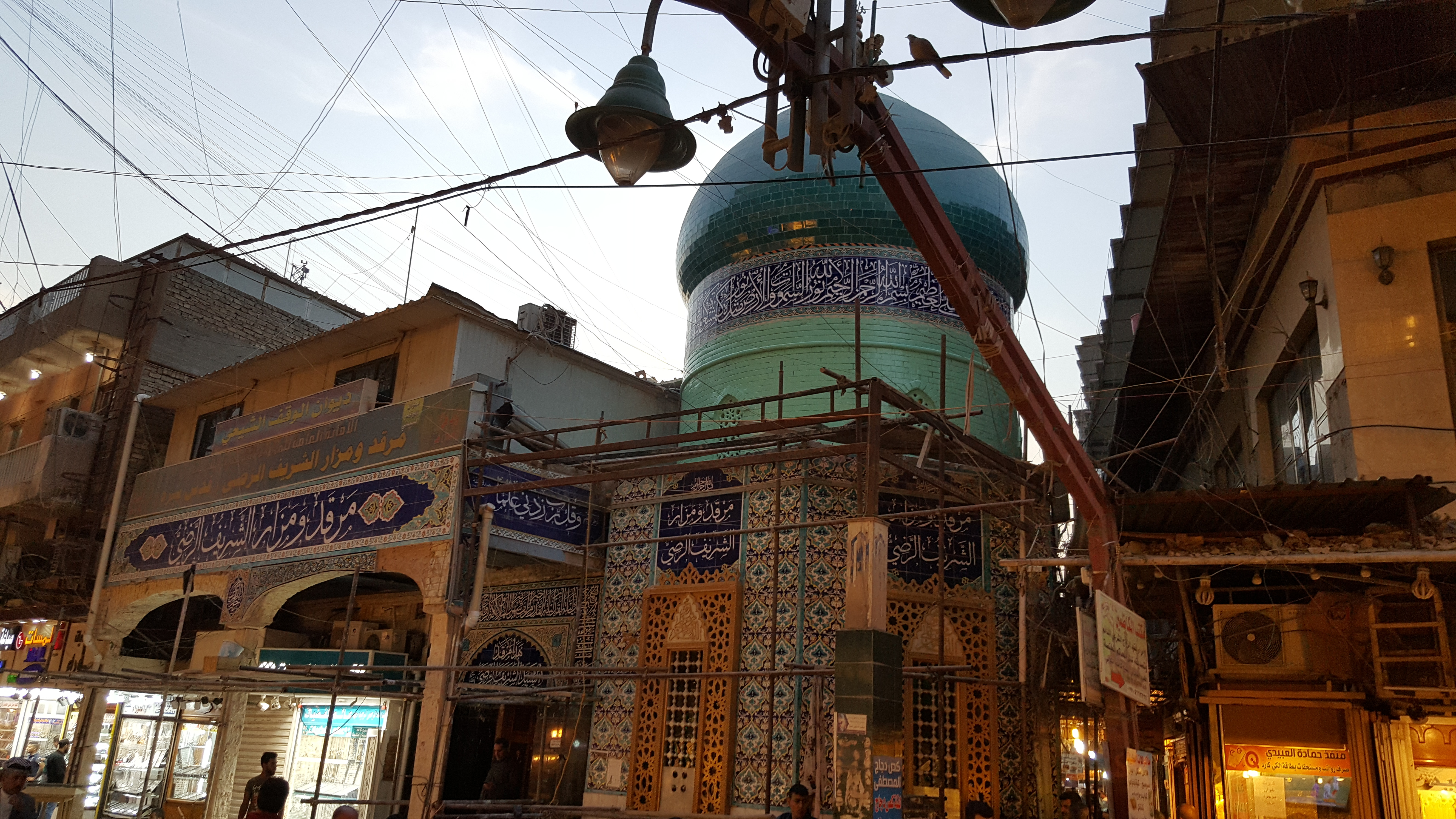 Sayed razi holy shrine